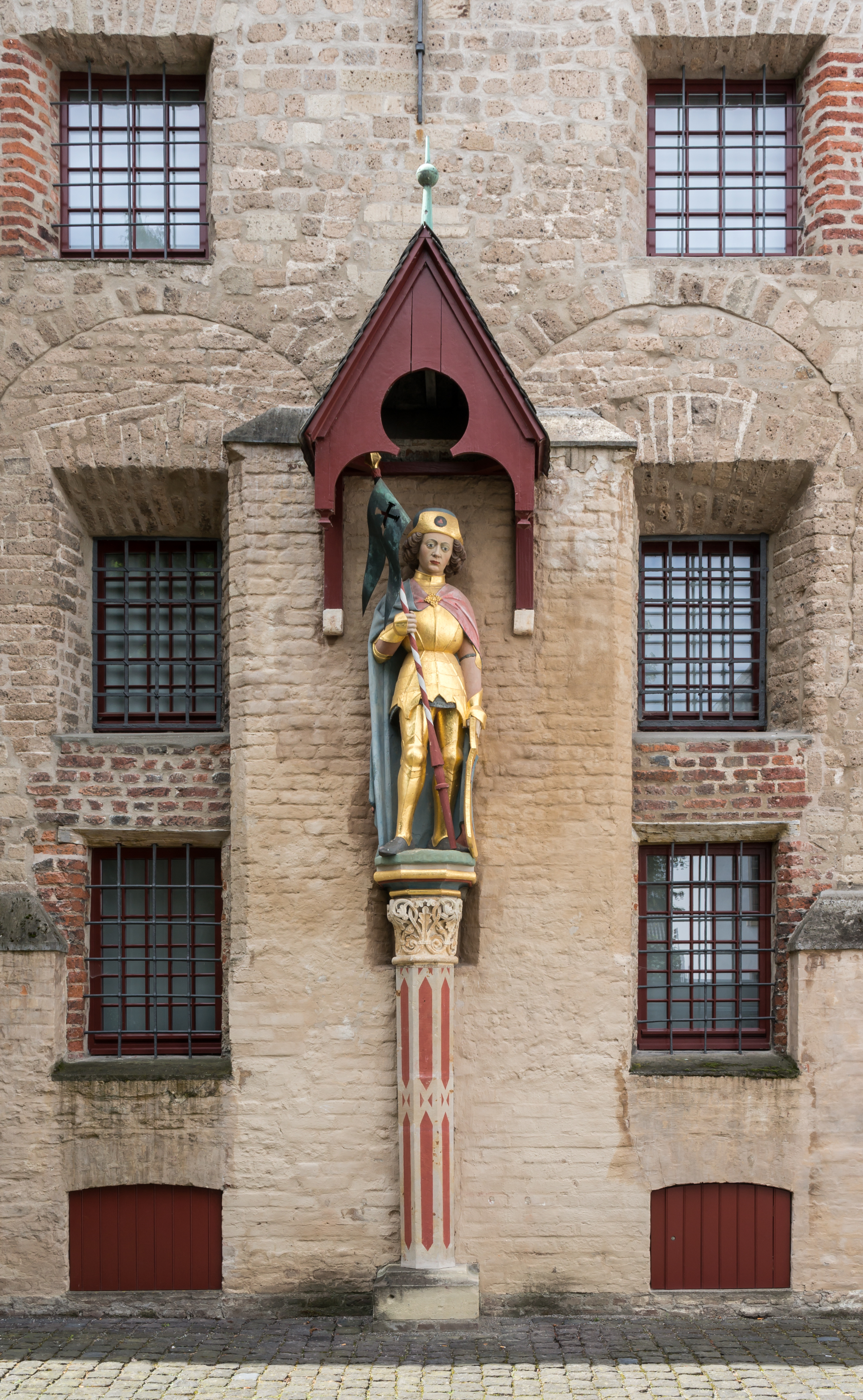 Saint Viktor, Xanten, North Rhine-Westphalia, Germany This image shows a heritage building in Germany, located in the North Rhine-Westphalian city Xanten (no. 16). Sculpture TitleHeiliger Viktor von XantenArtistHeinrich BlankenbylDate1468